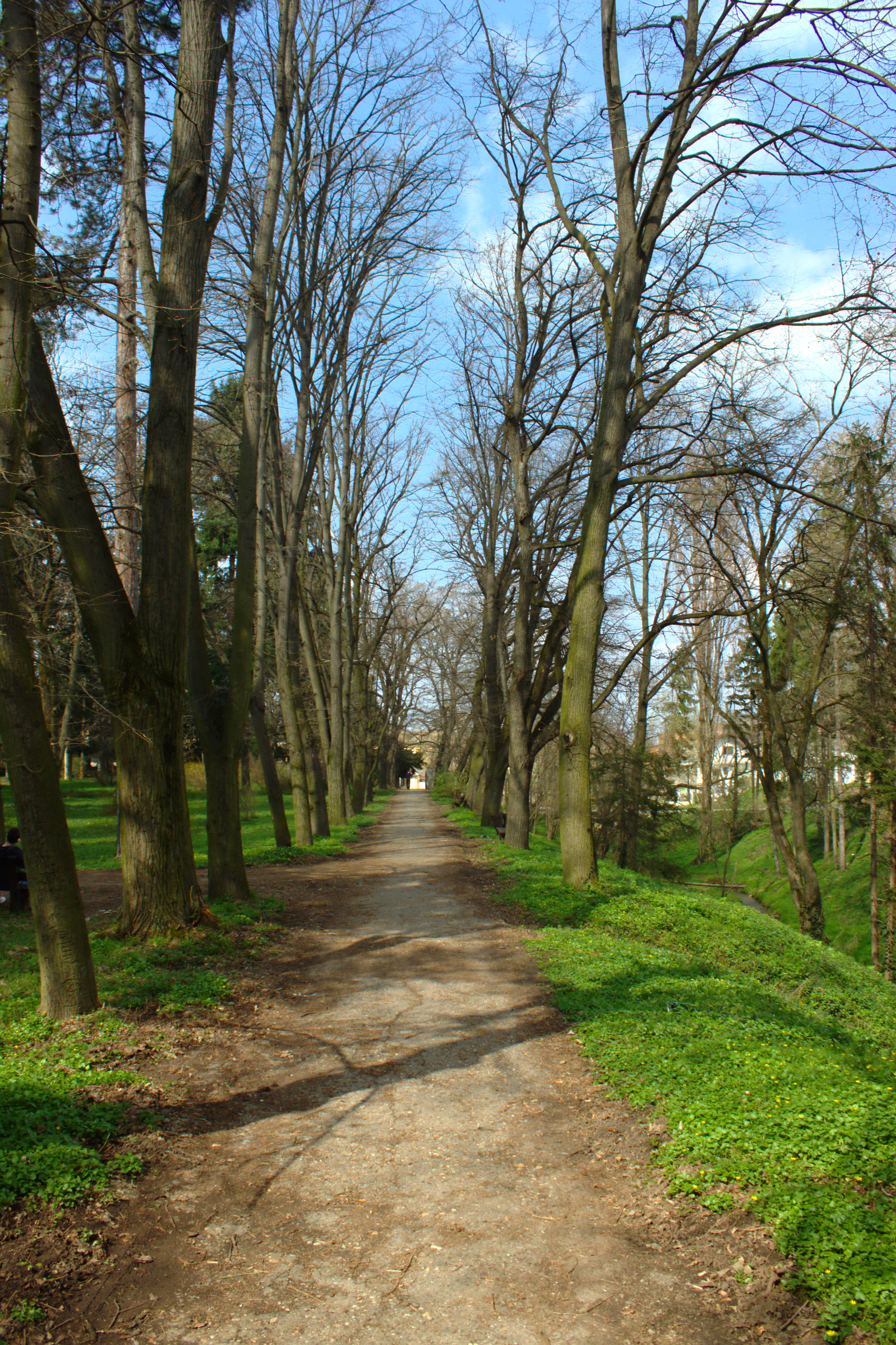 An alley in Dvorska bašta park, located on the southern side of the town of Sremski Karlovci, Serbia